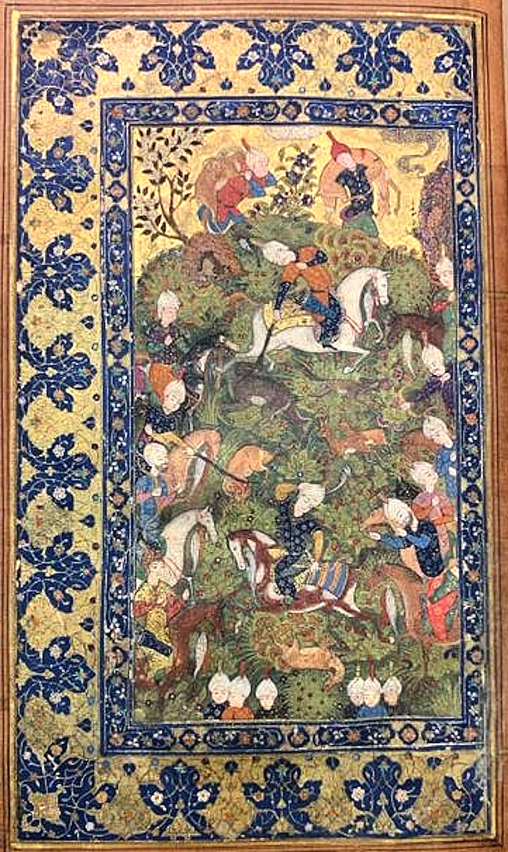 Shah İsmayil turkic manuscript